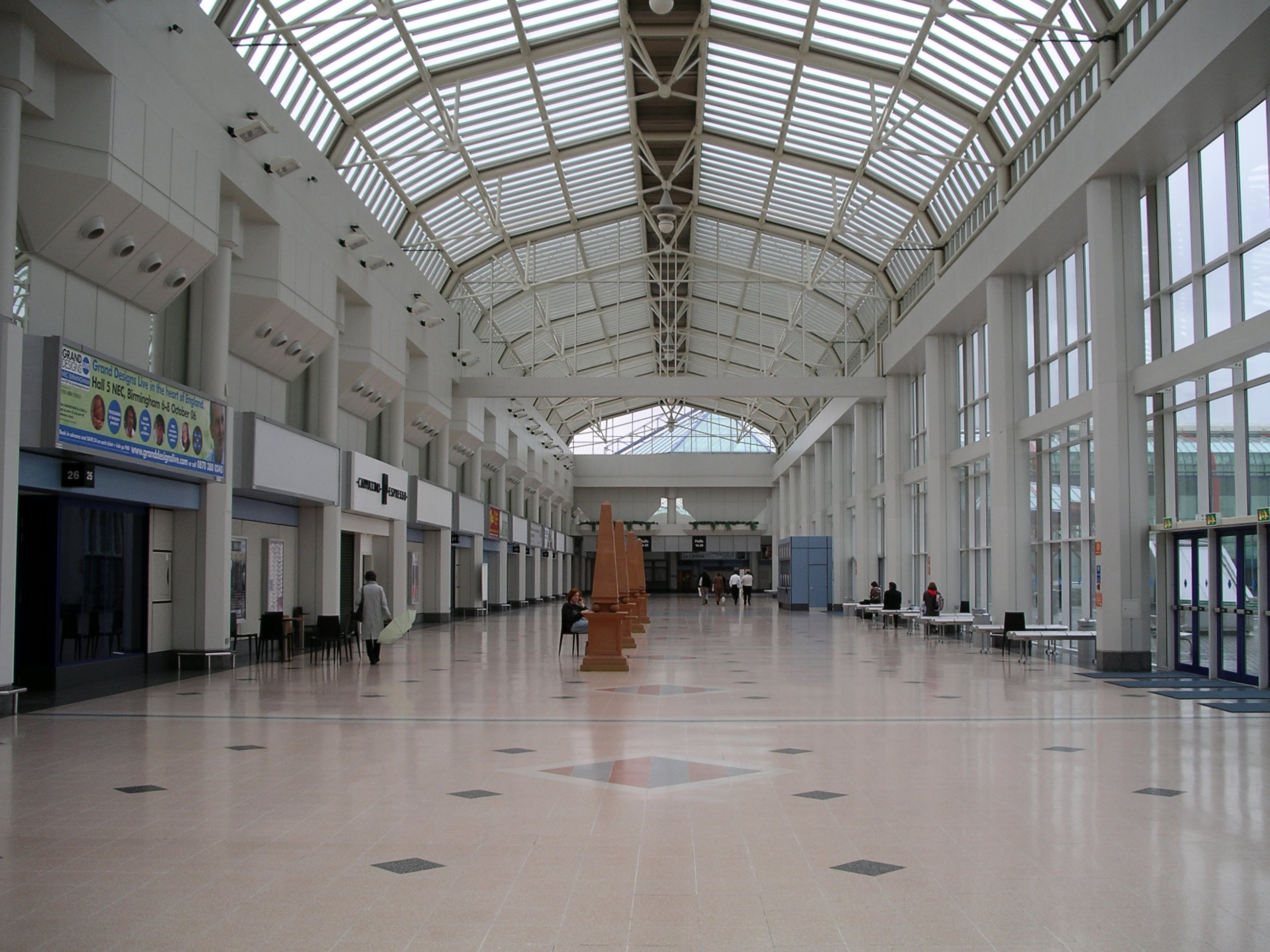 photo inside the atrium at the NEC, West Midlands, England